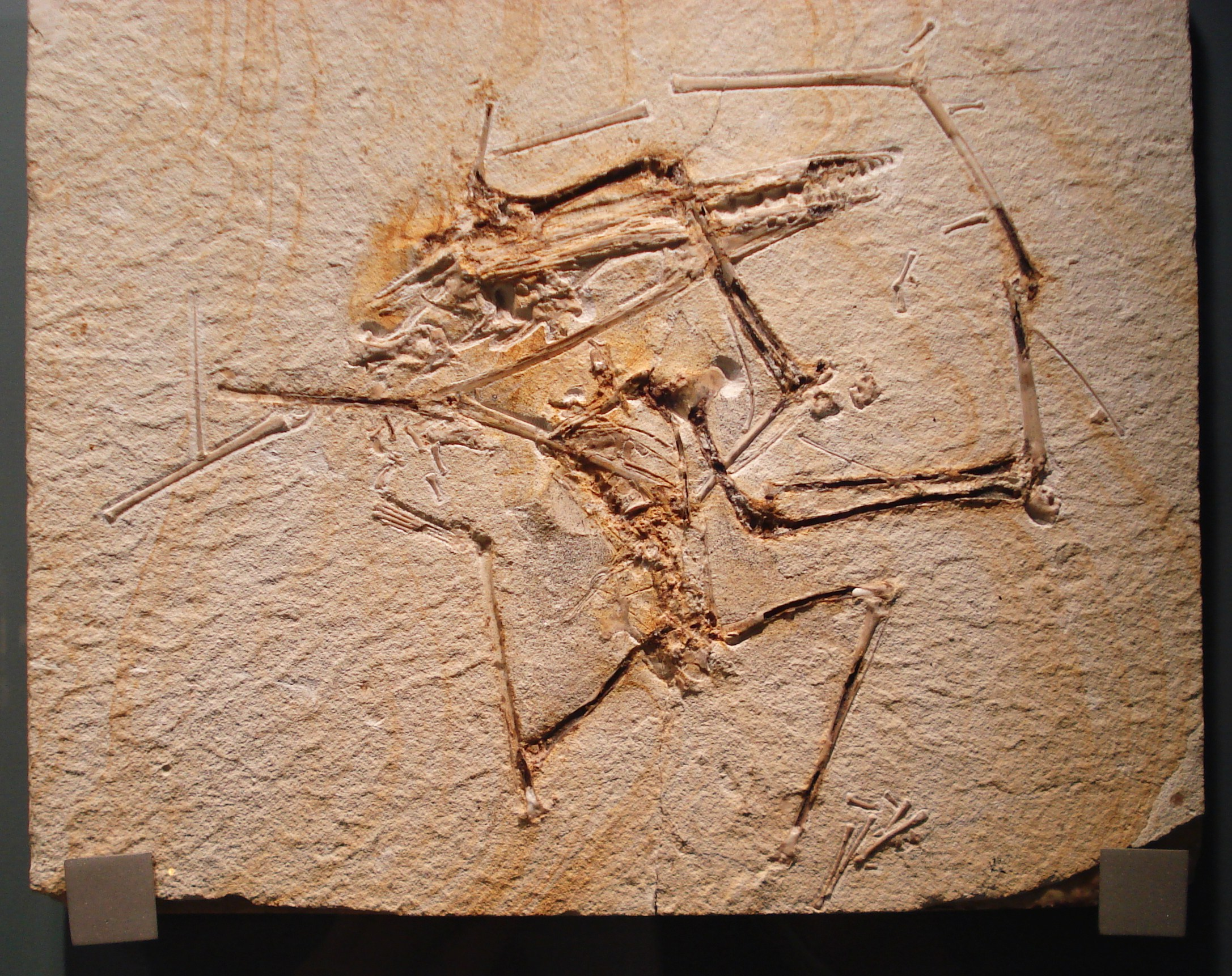 fossil of germanodactylus